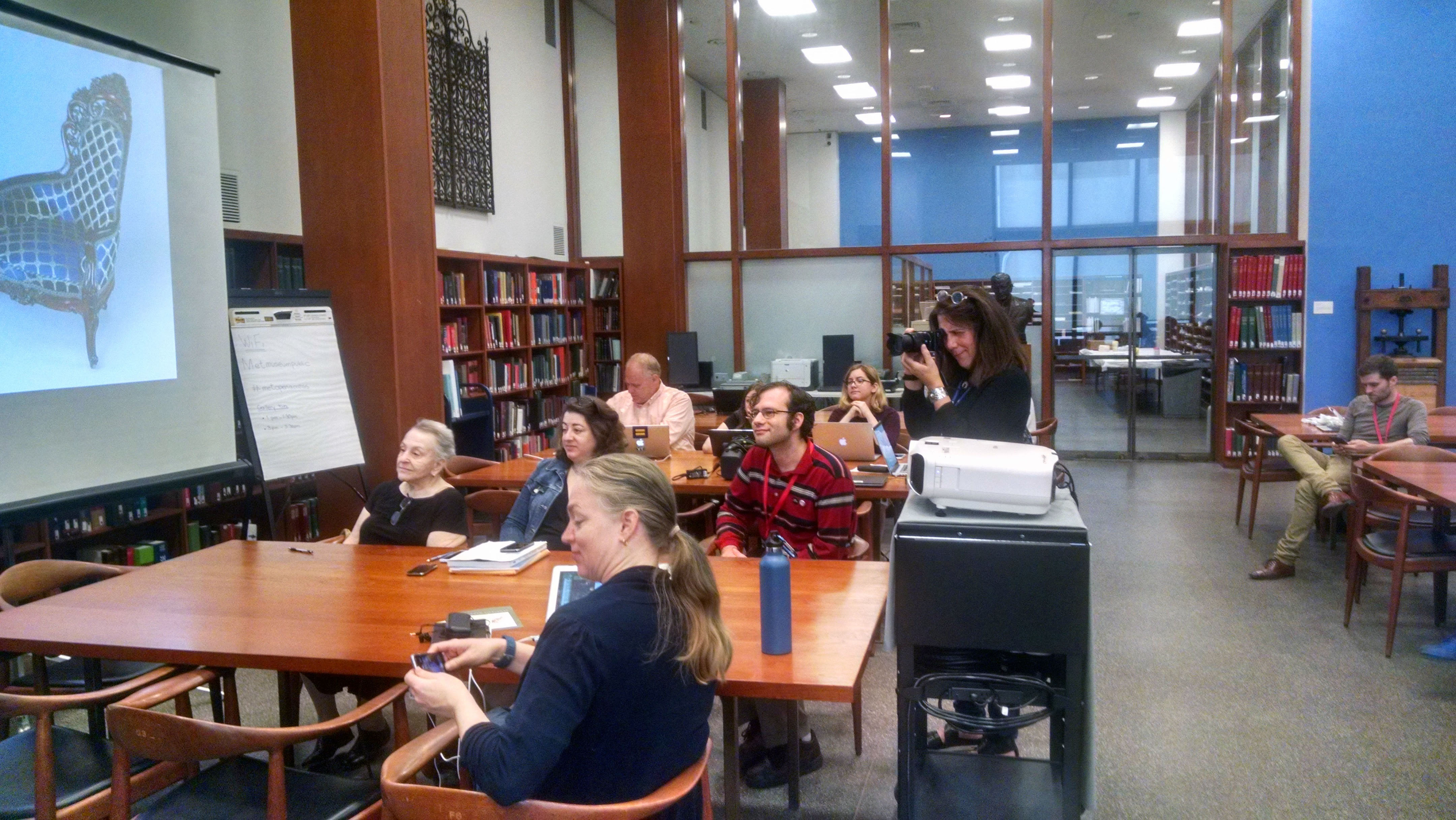 The Met Open Access Wikimedia Edit-A-Thon. The Metropolitan Museum of Art. New York City. May 21, 2017. Thomas J. Watson Library. Participants listening to welcoming remarks.